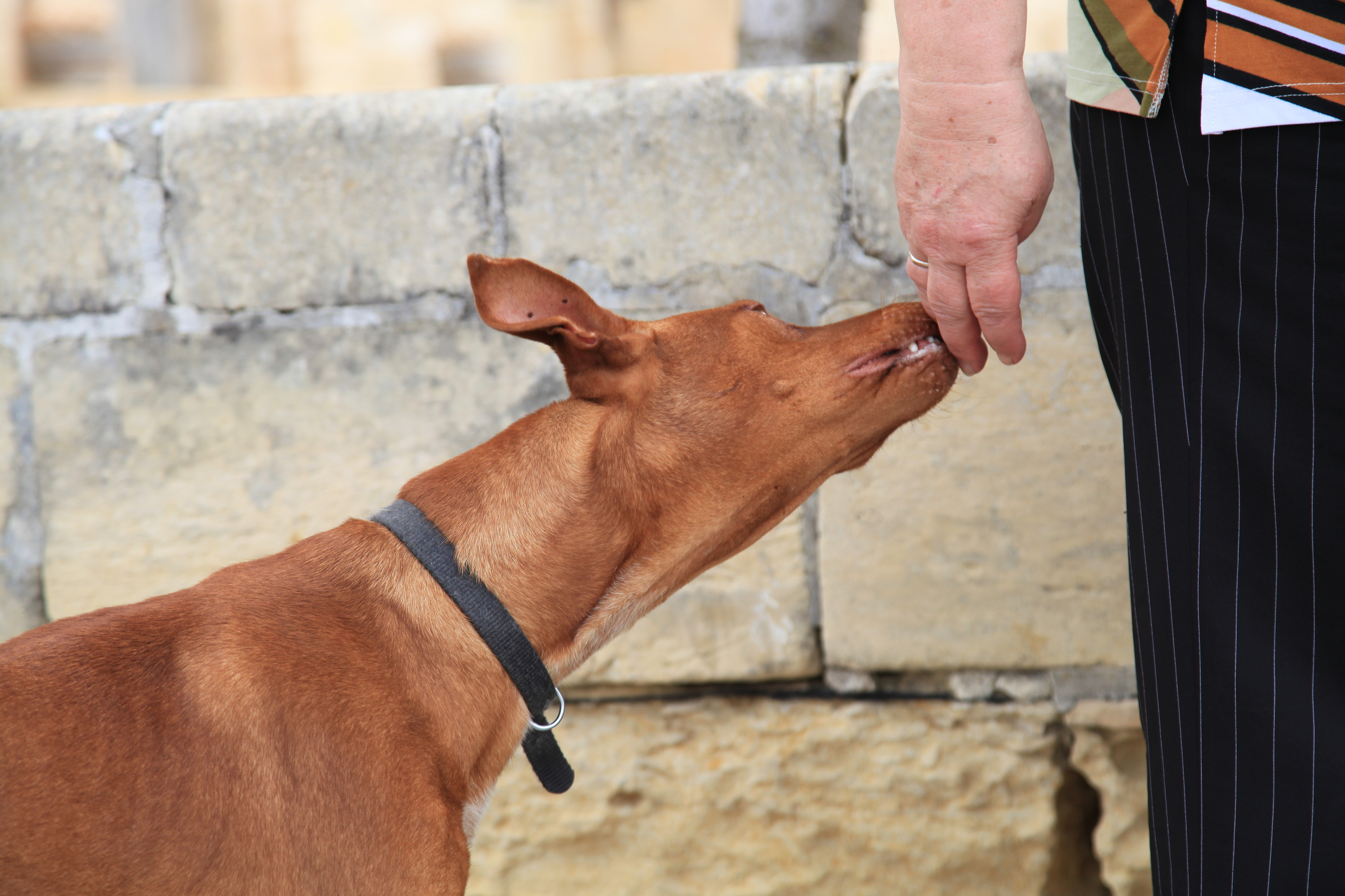 A Pharaoh Hound at Triq Selmun in Mellieħa, Malta